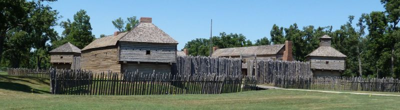 Fort Massac Replica River Side View